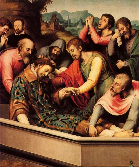 The Entombment of St Stephen Martyr